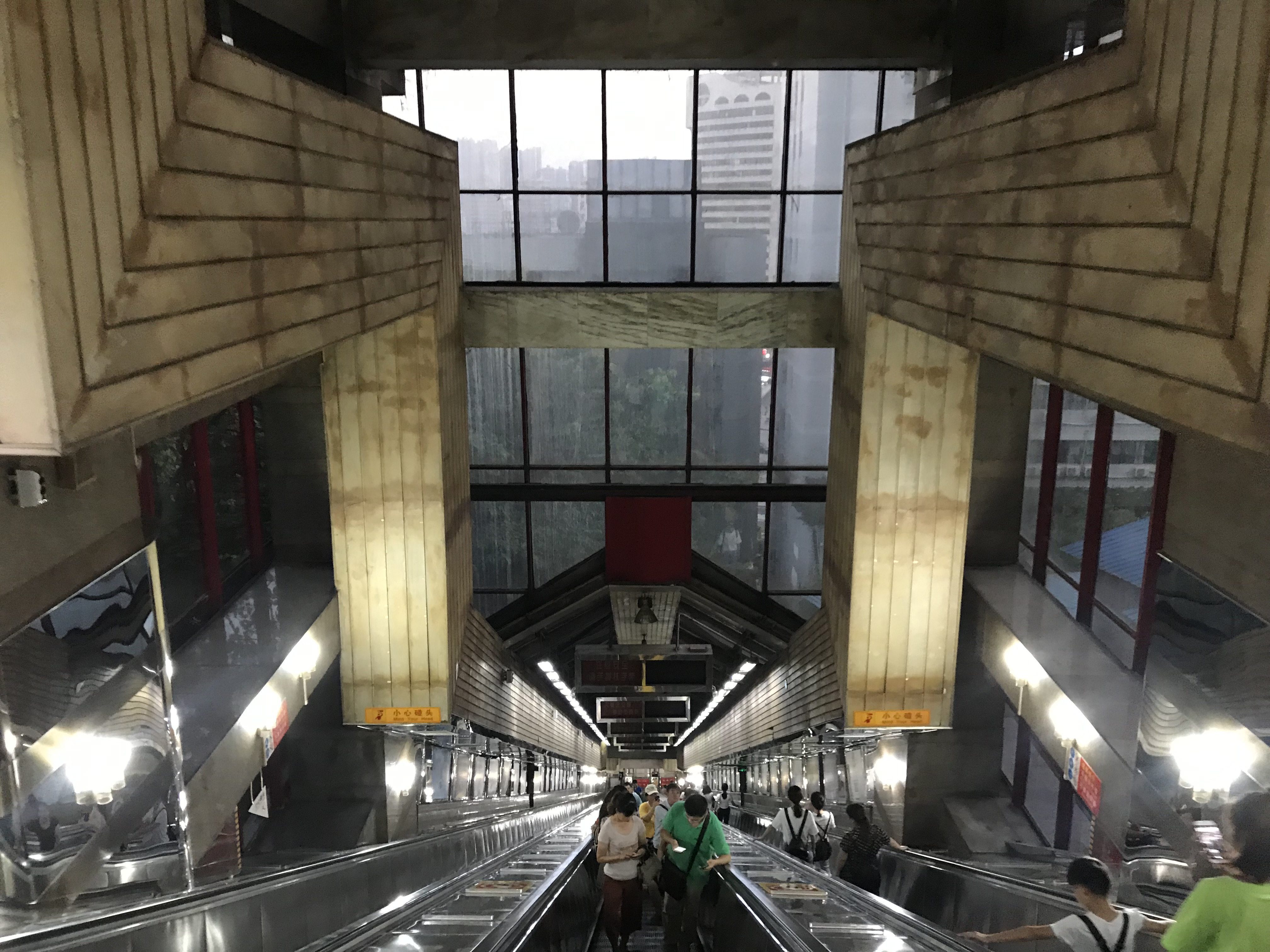 From Caiyuanba to Lianglukou